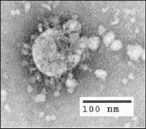 An electron microscopic image of a thin section of SARS-CoV within the cytoplasm of an infected cell, showing the spherical particles and cross-sections through the viral nucleocapsid.